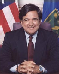 Bill Richardson, Governor of New Mexico and former Secretary of Energy of the United States.